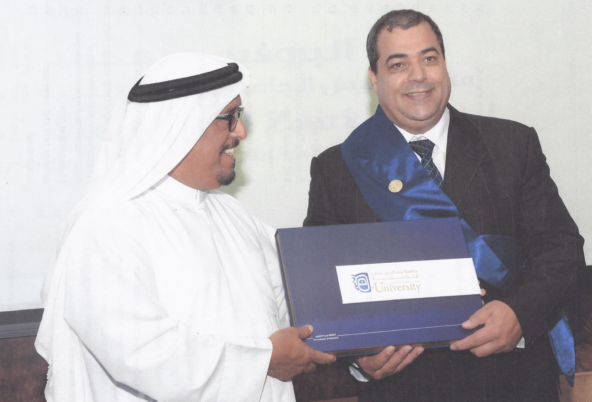 The recognition certificate was presented by the Hamdan Bin Mohammed Smart University.